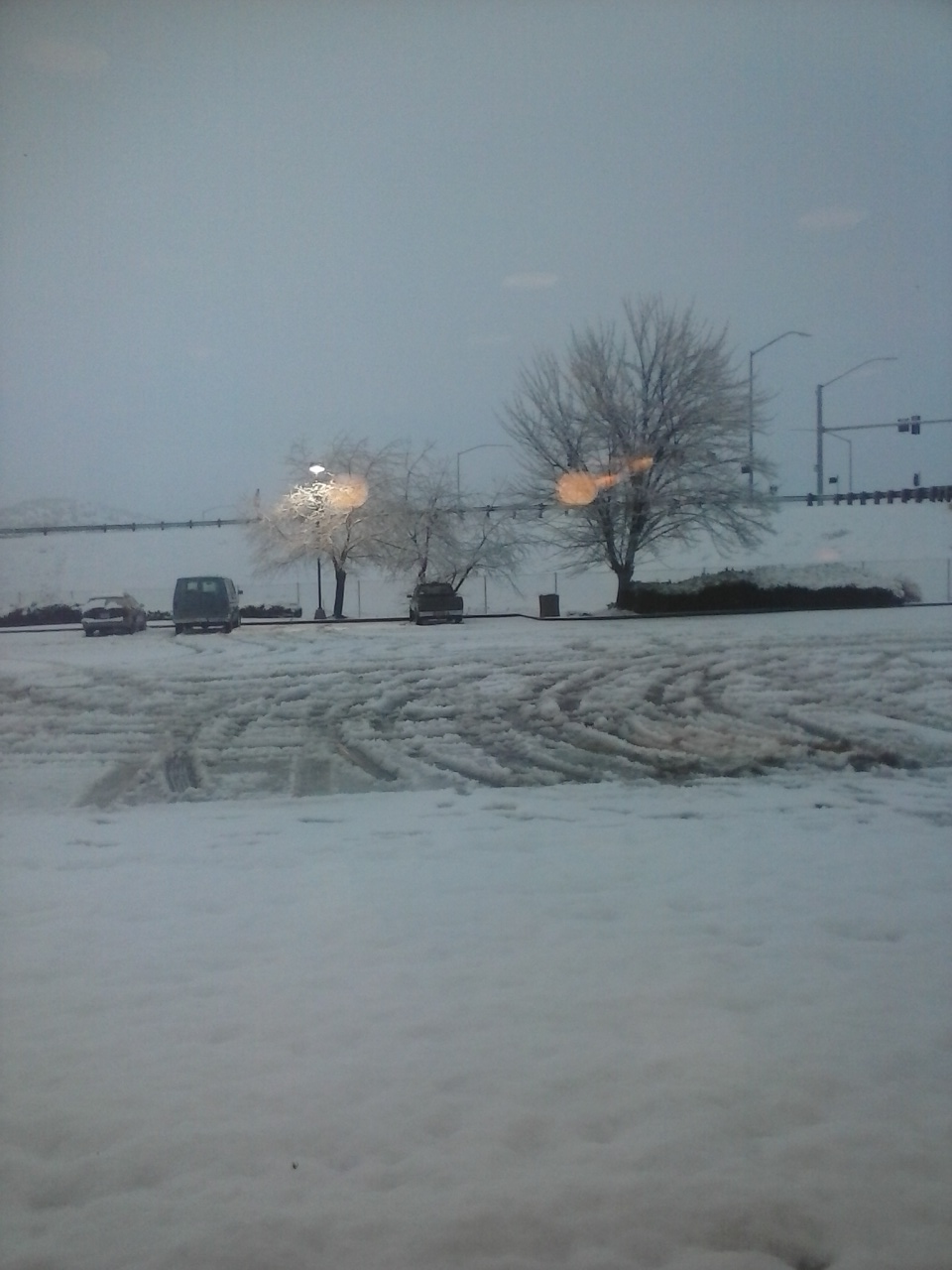 Snow in Phoenix on December 13, 2015 at Exit 24 off Interstate 5. I allow for this image to be used anywhere on the web so long as I, Dpm12, the proper author of this work, am given due credit. I grant permission for this image to be used outside Wikipedia, as long as I (Dpm12) am given credit.